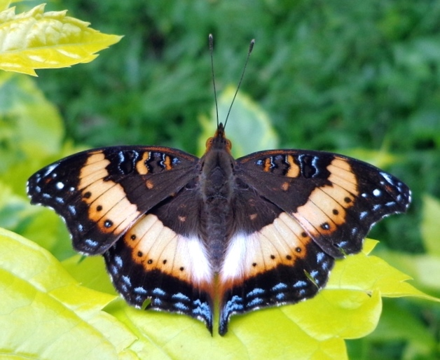 Wet-season form of the Fashion commodore, basking in a garden in Lagos, Nigeria